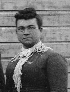 Likely to be Lucinda Lee Dalton, who taught in Ferron at the time this photo was taken. Part of a larger class photo.